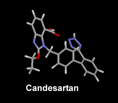 Created by Osni Moreira Filho on March 20, 2006.